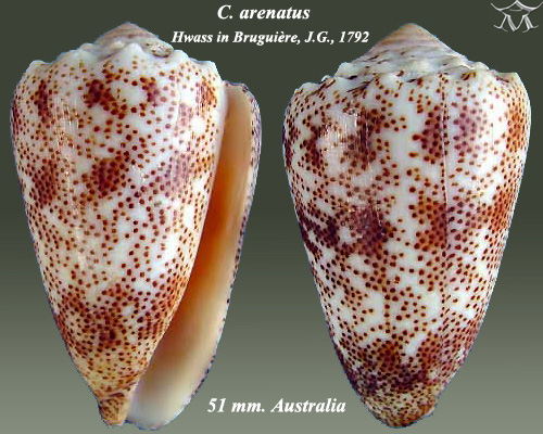 Conus arenatus 3